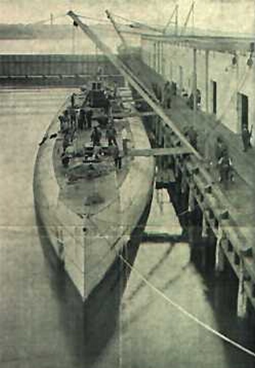 The German merchant submarine Deutschland, loading / unloading cargo in New London, United States of America, 1916, after having slipped through the British blockade of the German ports. An example of one of the two only merchant submarines ever built. Original post card text: "The German U Boat "Deutschland" Largest In The World and her commander Captain Paul König - Arriving - New London, Nov 1, 1916"